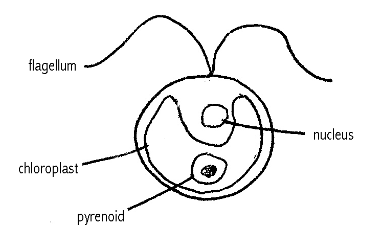 Schematic drawing of a Chlamydomonas cell